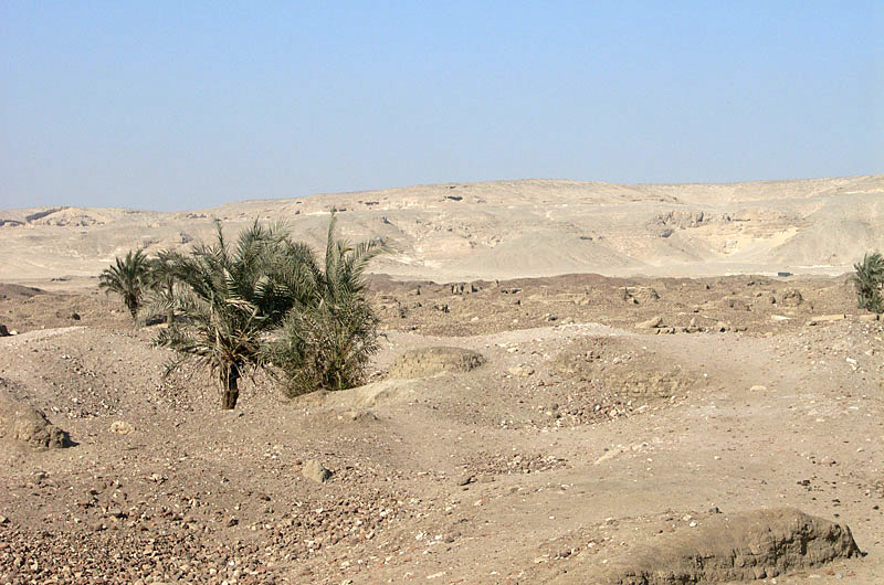 Settlement remains, view to the north, el-Sheikh 'Abada, Egypt